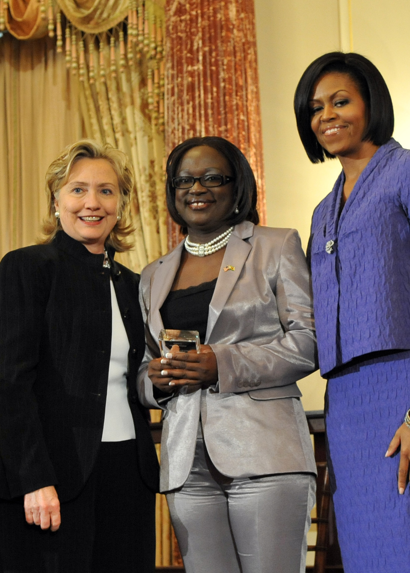 2010 International Women of Courage Awards - individual awardees with Secretary of State Hillary Clinton and First Lady Michelle Obama